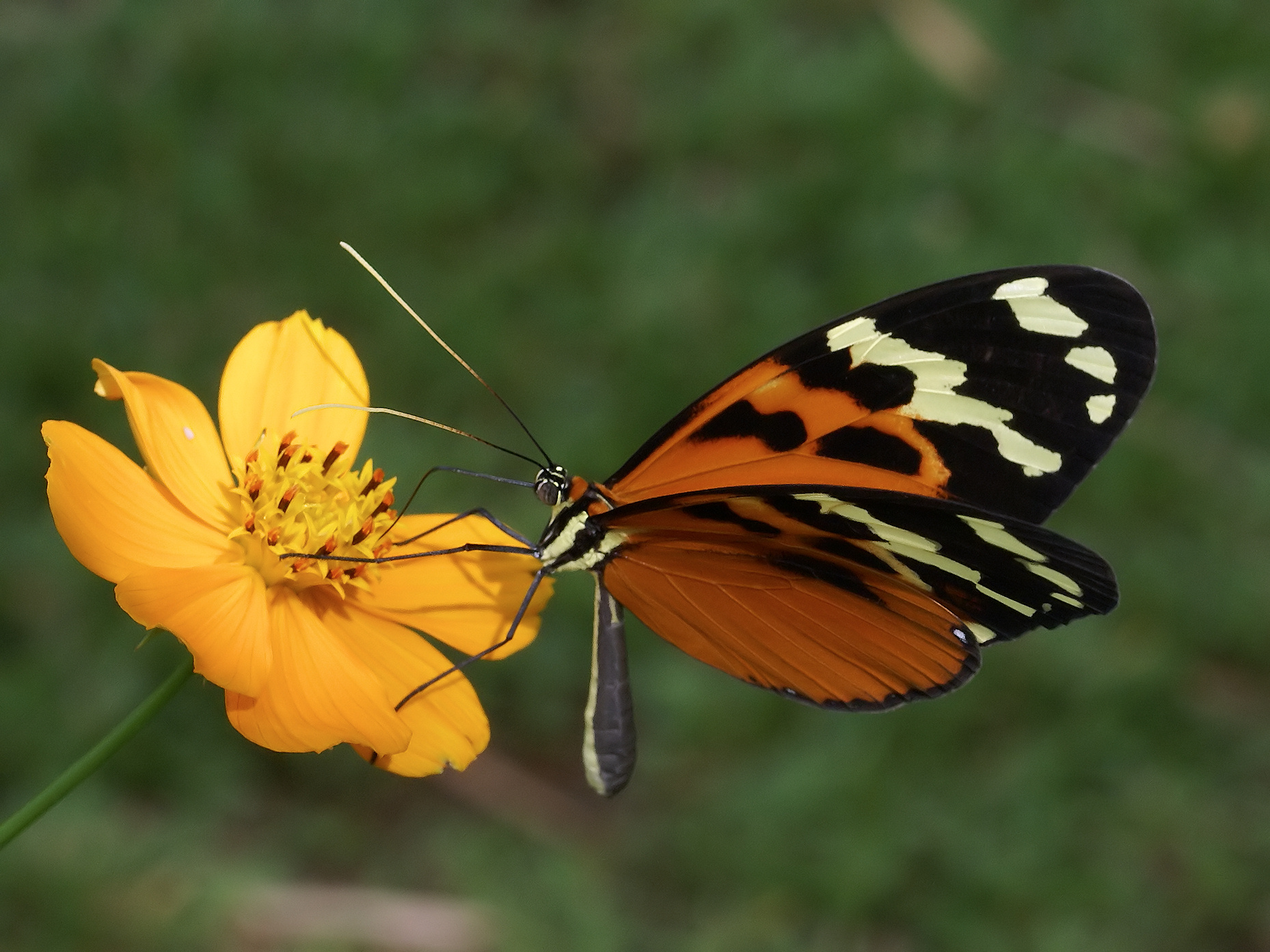 Mimic Tigerwing at Margarita la Garita, Alajuela, Costa Rica.